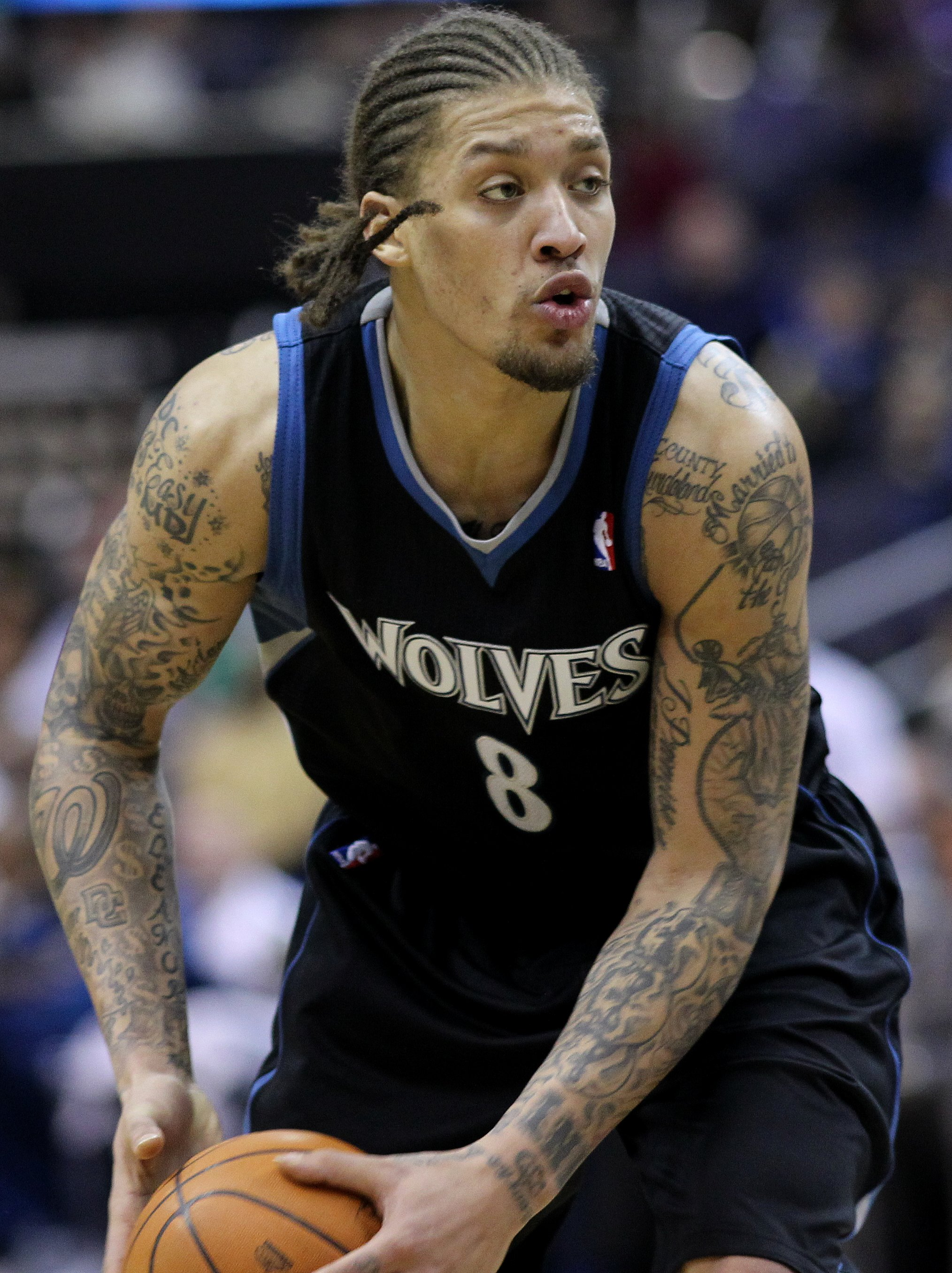 Wizards v/s Timberwolves 03/05/11